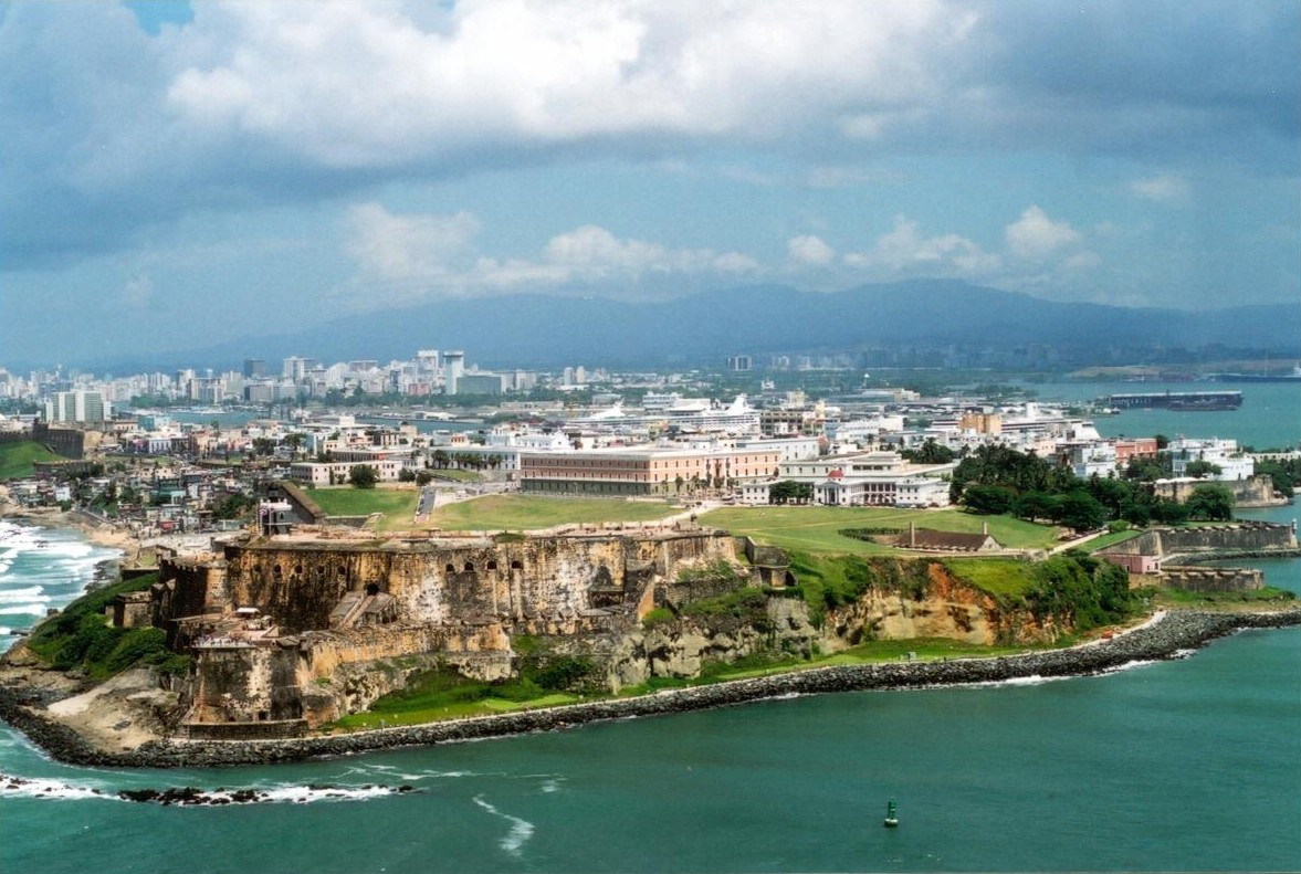 Aeriel view of Old San Juan with the Luquillo Mountain Range (Sierra de Luquillo) in the background.